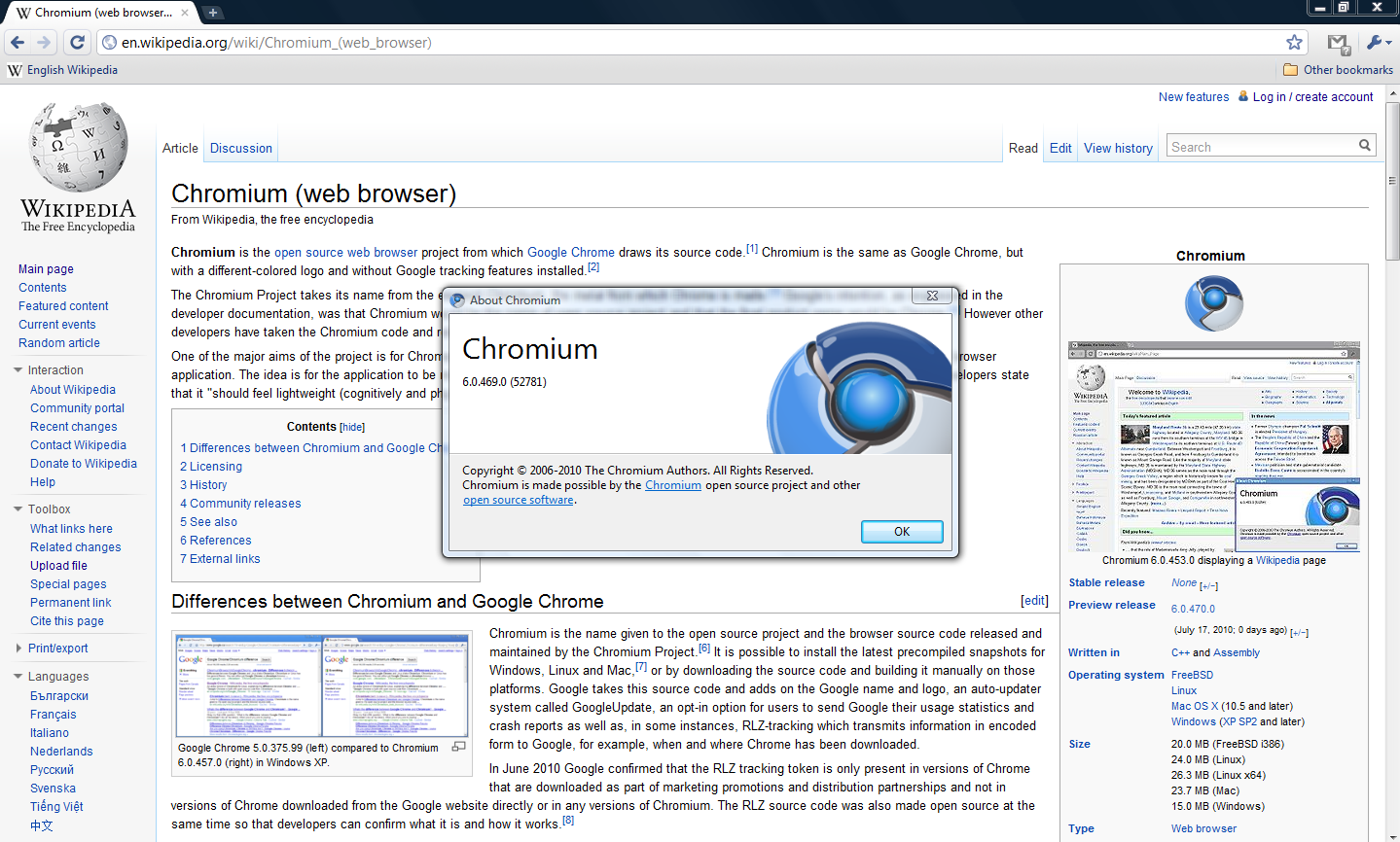 Google Chromium